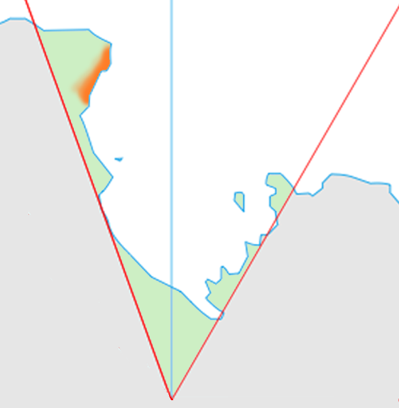 Location map of the Borchgrevink Coast in the Ross Dependency Generated from File:Antarctica,_territorial_claims.svg by User:Lokal Profil by myself (User:Grutness)